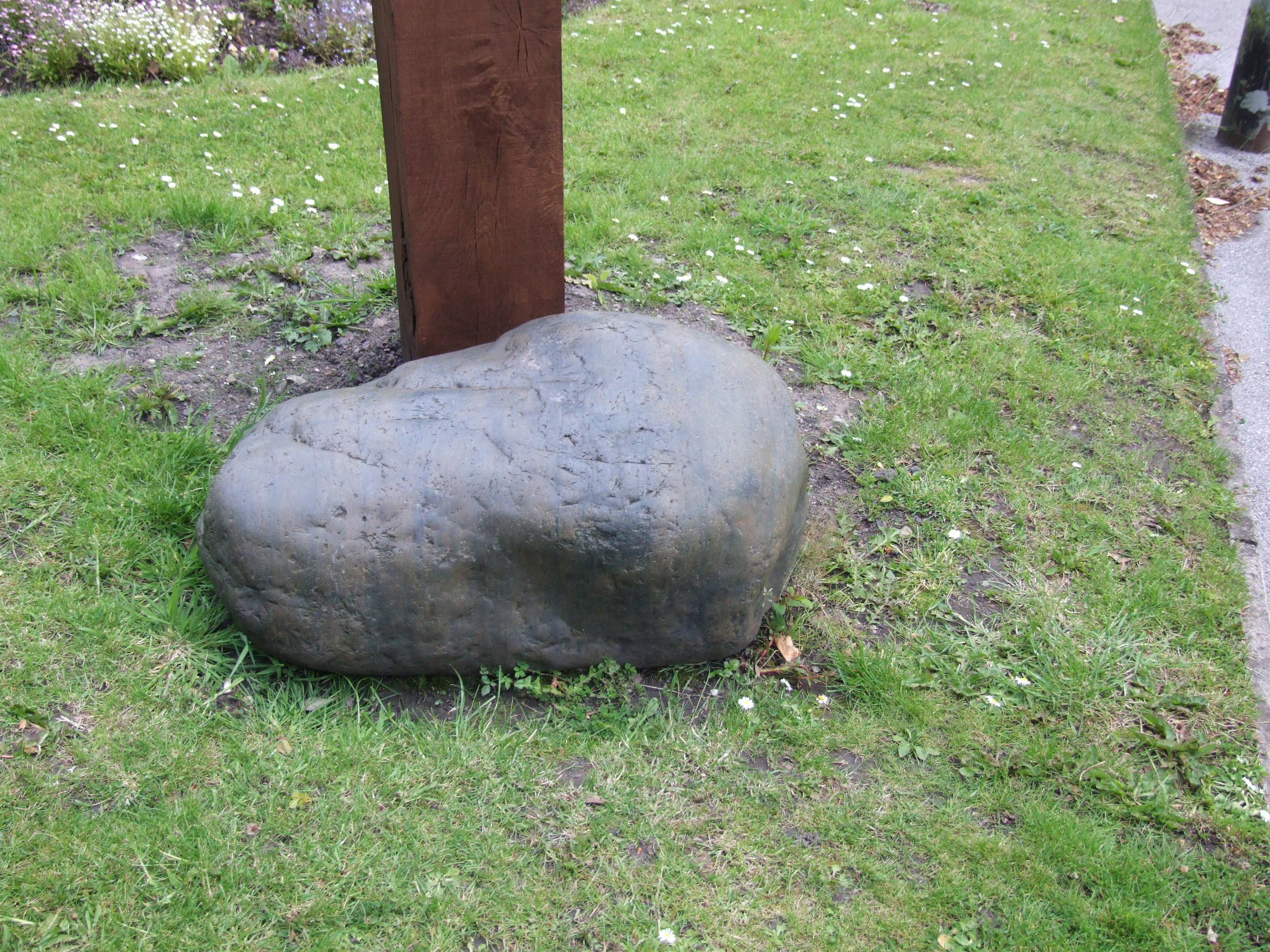 Compstall is a village in near Marple in Greater Manchester.Compstall Mills were built in the 1820s by George Andrew I & II, who then extended the village to house their workers. It is now a conservation area. Where deals between farmers were sealed by spitting on the hand and striking this glacial erratic.